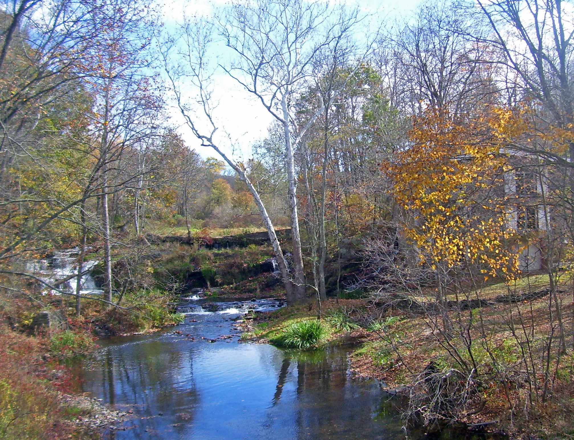 Dam on East Branch Wappinger Creek, near Salt Point, NY. Formerly the center of the industrial hamlet of Bloomvale